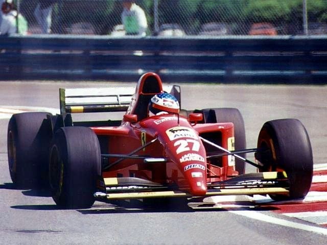 Jean Alesi wins the 1995 Canadian GP (modified version no cigarettes sponsor)